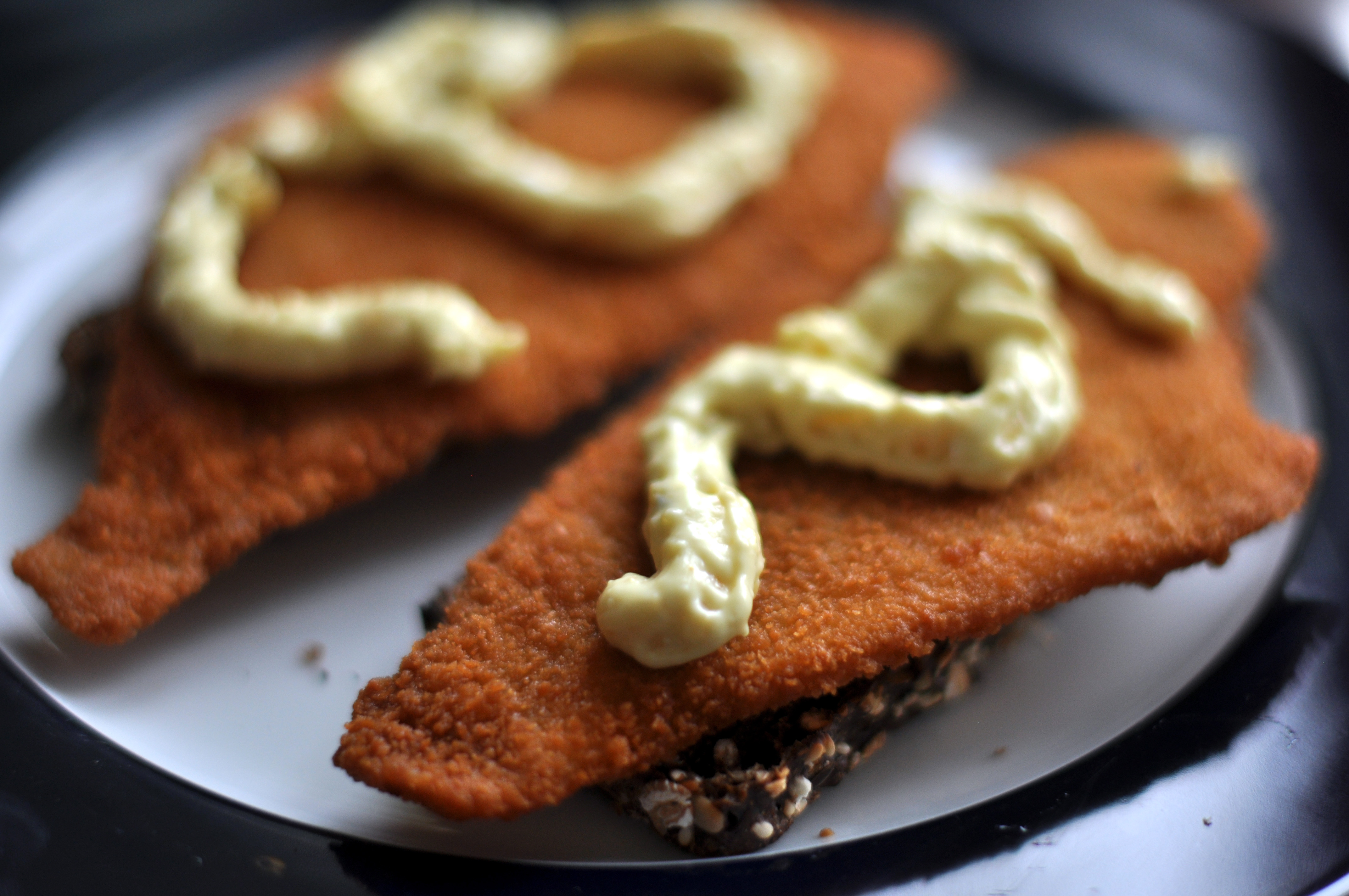 Rye bread with fish fillets and remoulade